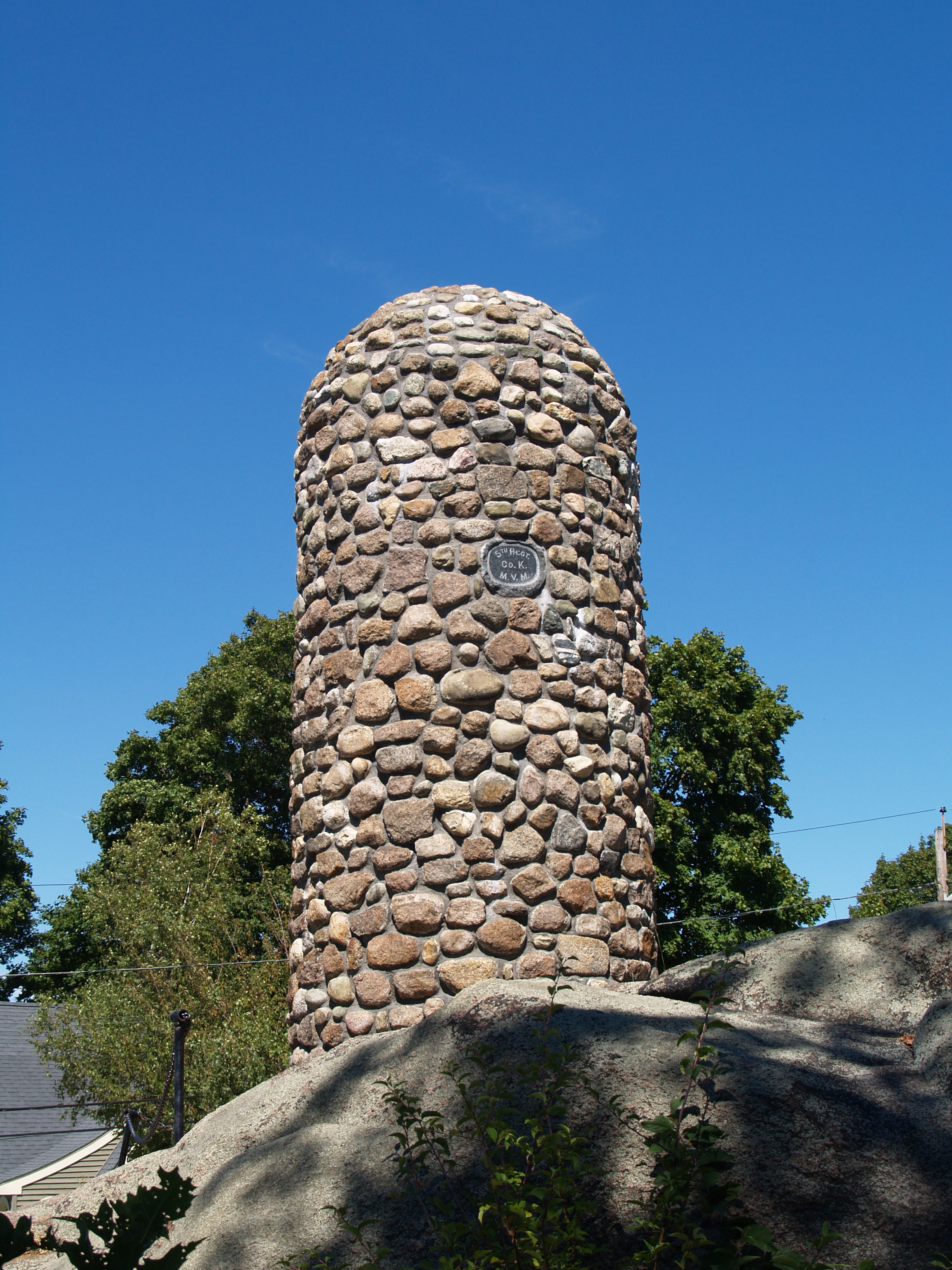 View of the Abigail Adams Cairn, as seen from the south side, near the corner of Viden St and Franklin St in Quincy, Ma. As can be seen by the trees in the background, the view north that was available in colonial times is now blocked by trees and local buildings. The cairn was erected June 17, 1896